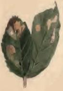 Stainton’s Natural History of the Tineina (1855–1873): Coleophora violacea mined leaves of Prunus spinosa with a larva-case attached